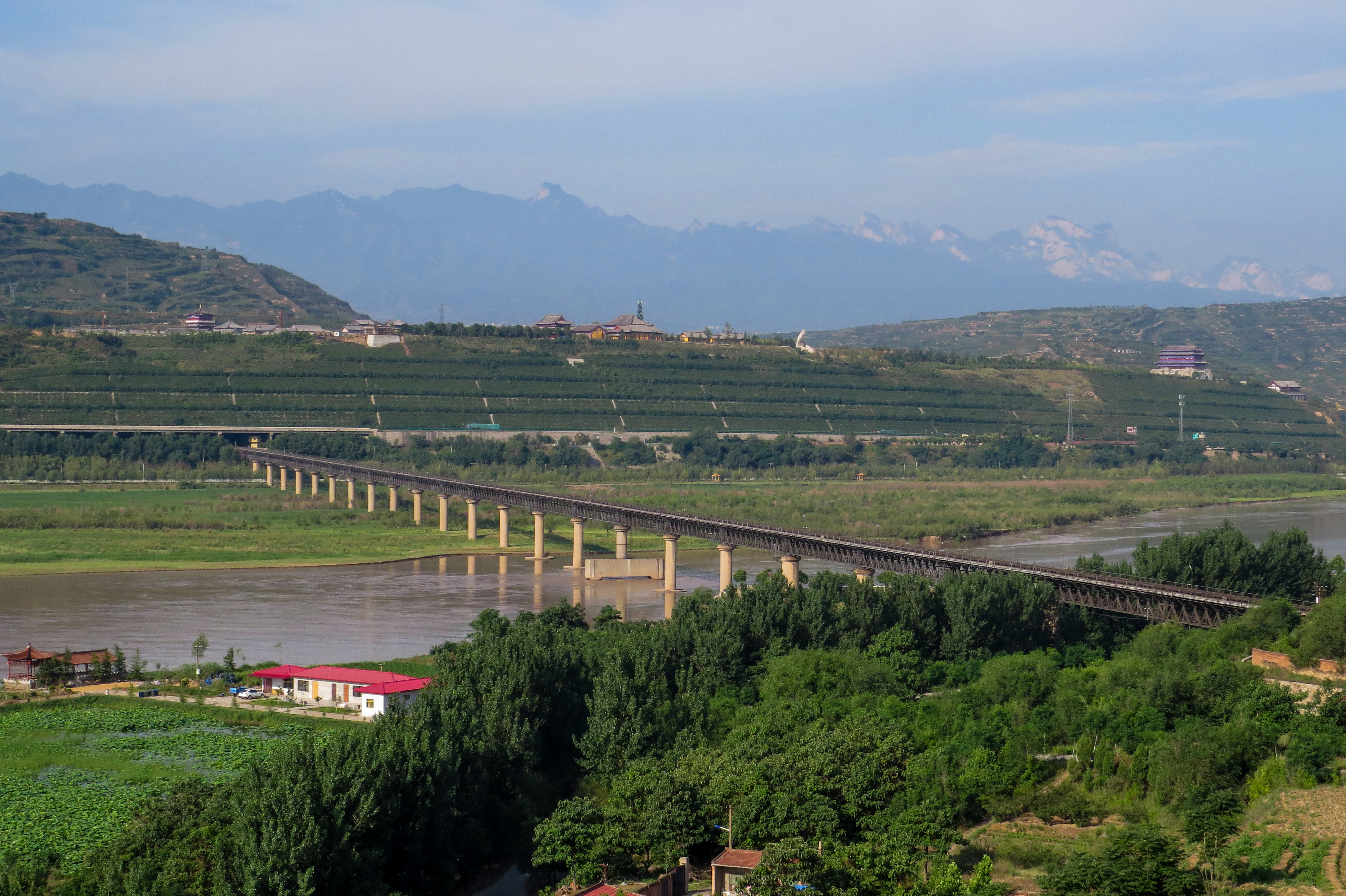 Fenglingdu is a true legend... along with Tongguan, across the Yellow River. This 1970 bridge used to be patrolled by CAPF, but now no one is on patrol.